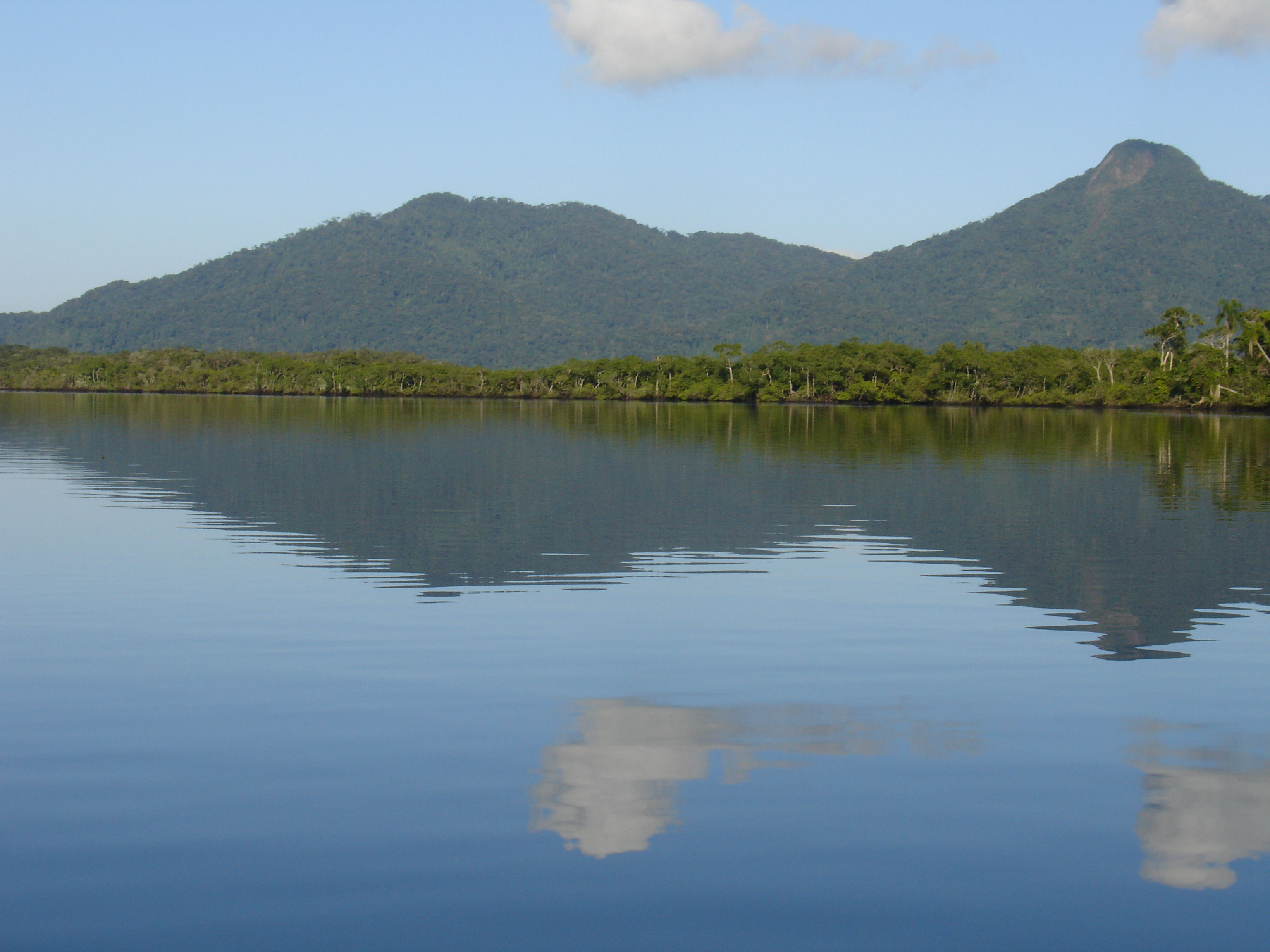 Lagamar de Cananeia State Park, Brazil.